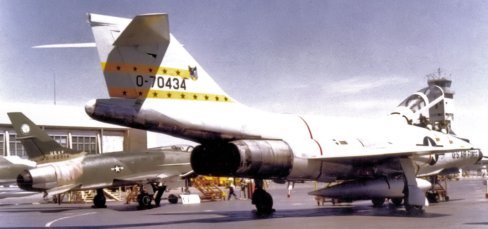 437th Fighter-Interceptor Squadron McDonnell F-101B-100-MC Voodoo 57-434 May 1967 (57-434) w/o Jul 5, 1976